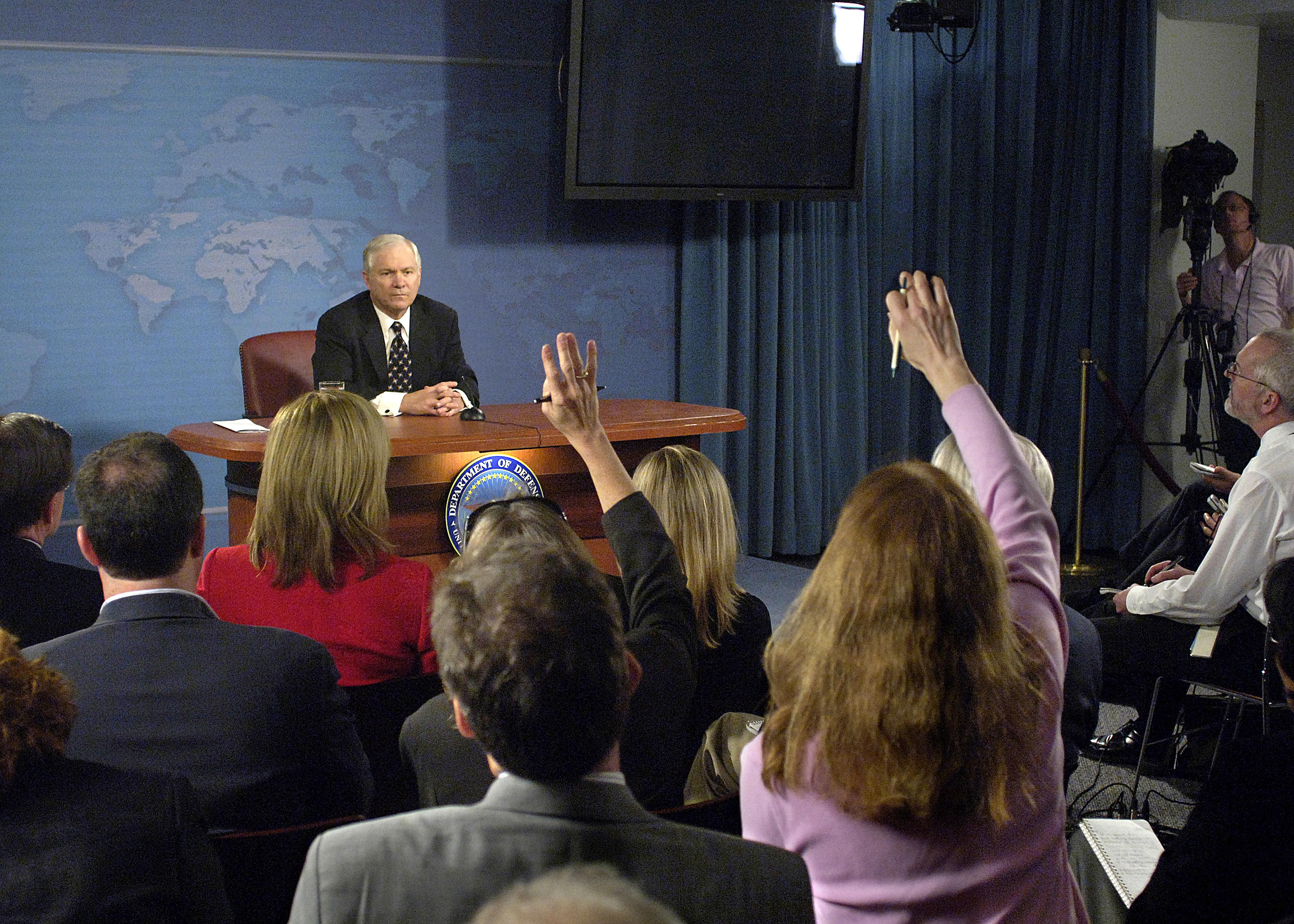 Secretary of Defense Robert M. Gates conducts a press briefing in the Pentagon on March 22, 2007. Gates responded to questions on a wide range of topics.